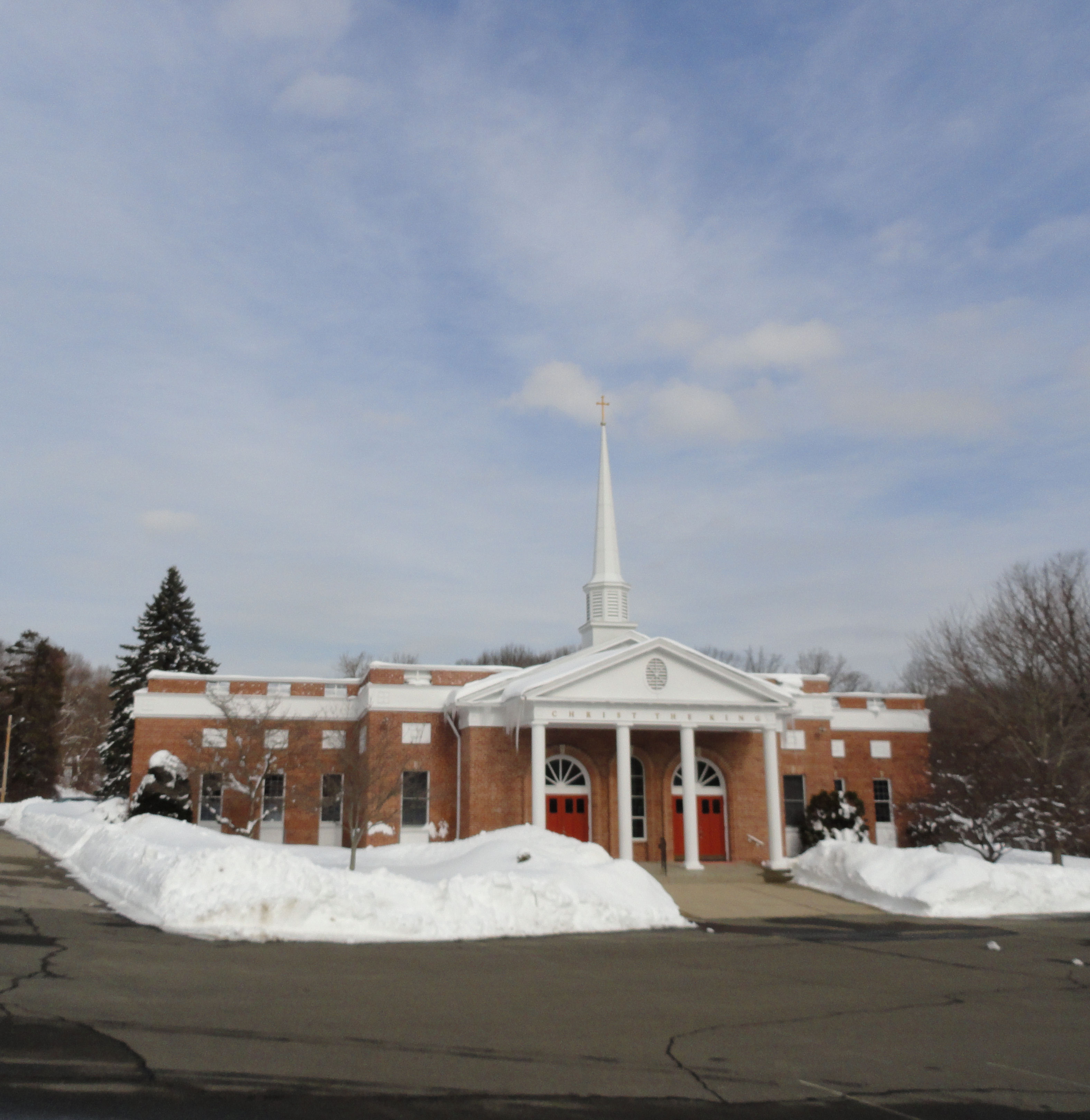 Christ the King Church, Trumbull, Connecticut